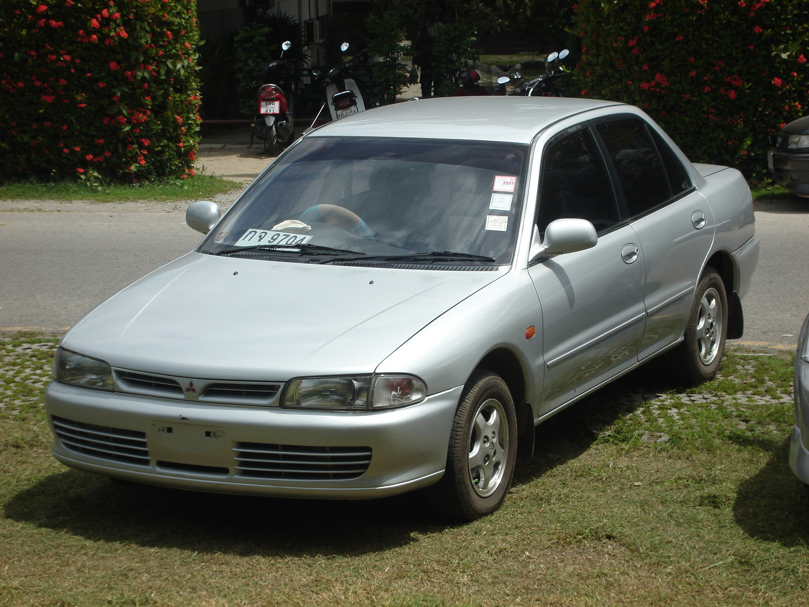 Mitsubishi Lancer (sedan) Place : Chiang Mai, Thailand